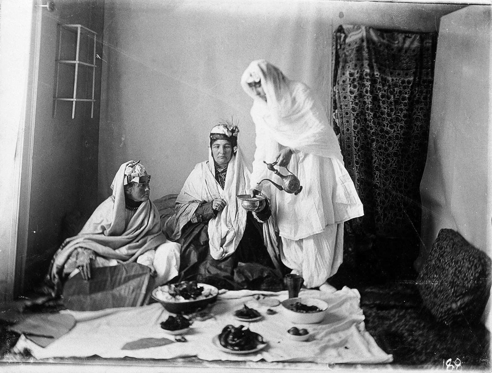 Ladies of the royal harem enjoying an Afghan meal. Kabul Archives & Manuscripts Keywords: Costume; Portraiture; Servant; Afghanistan; Clothing; Food; Eating; Lillias Anna Hamilton; Lillias Anna Hamilton